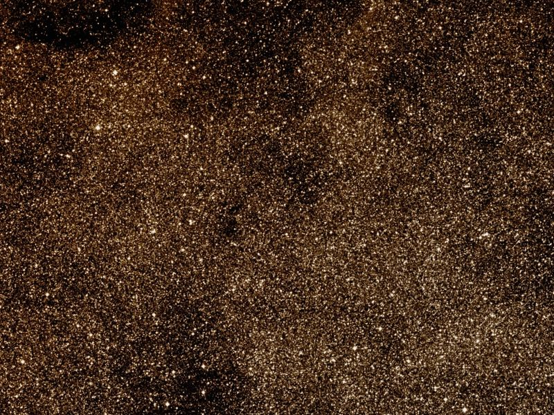 A star cluster in the constellation of Sagittarius, picture taken at the Rutherfurd Observatory in the Columbia University on 12 September 2014.